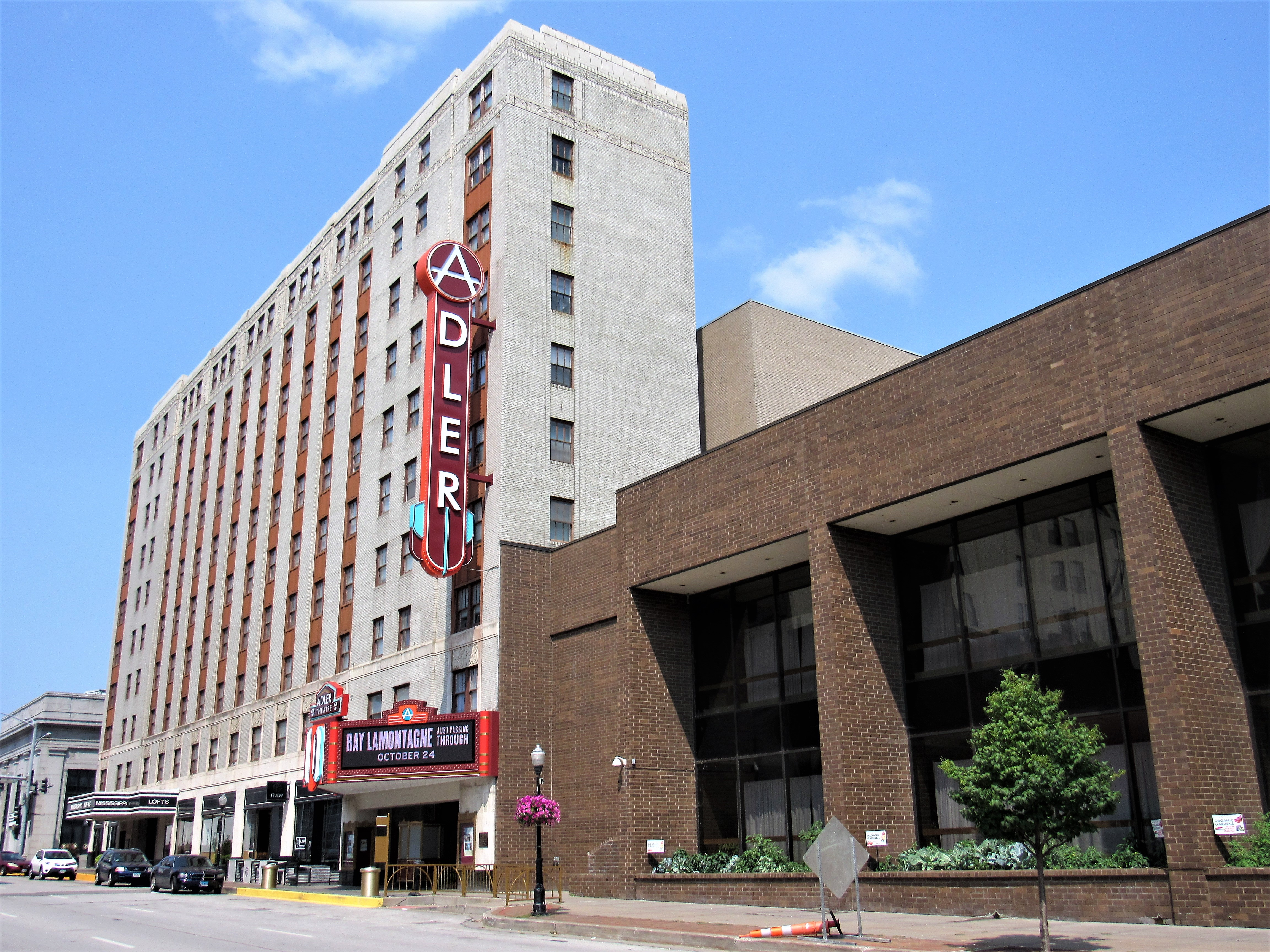 Mississippi Lofts in Davenport, Iowa.